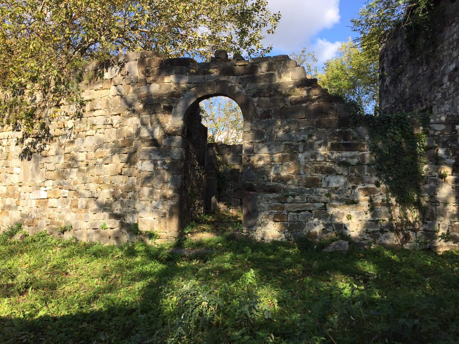 Attimis Sup